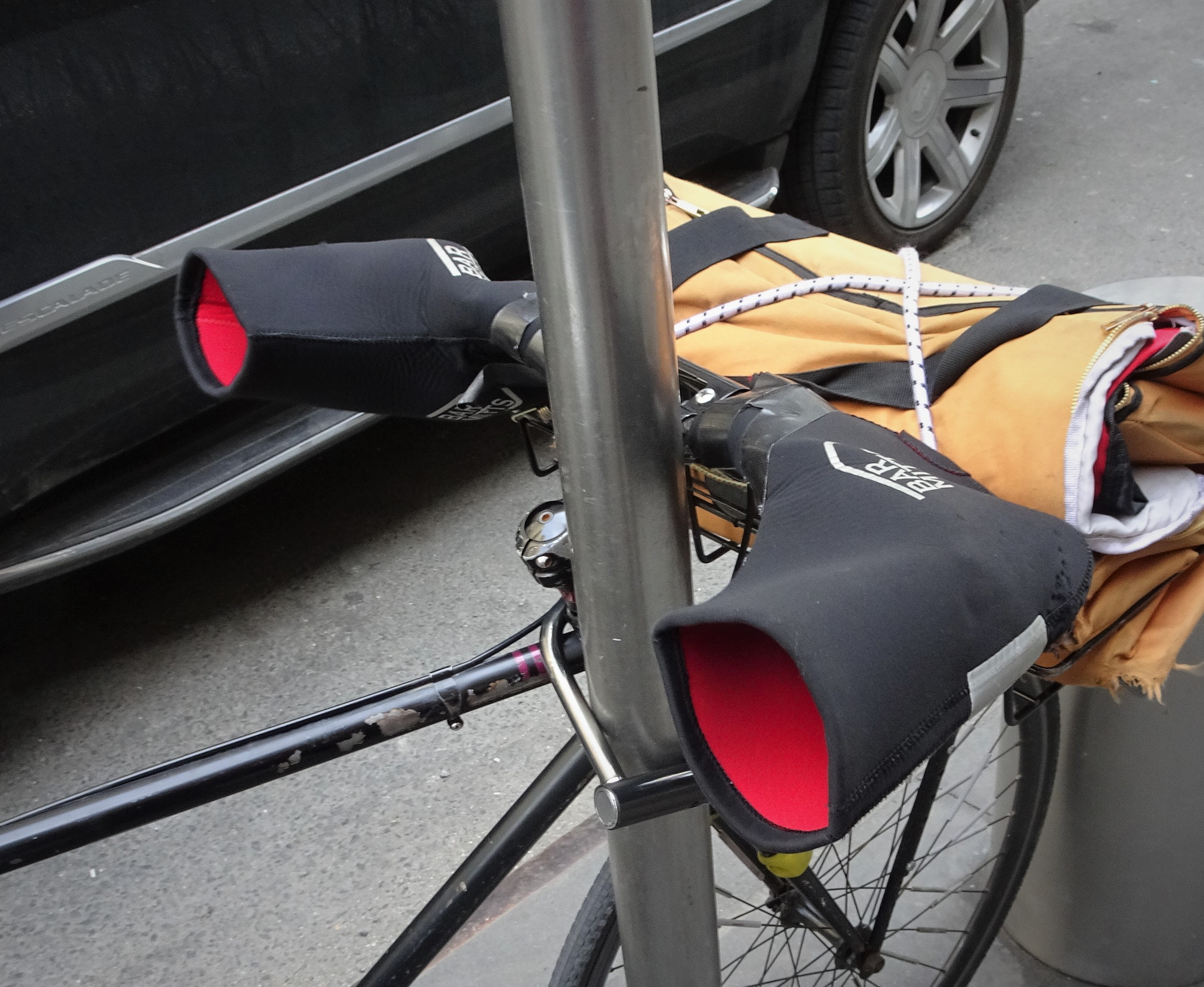 Looking east at Bar Mitts on a utility bike parked at West 60th Street on a cloudy day.